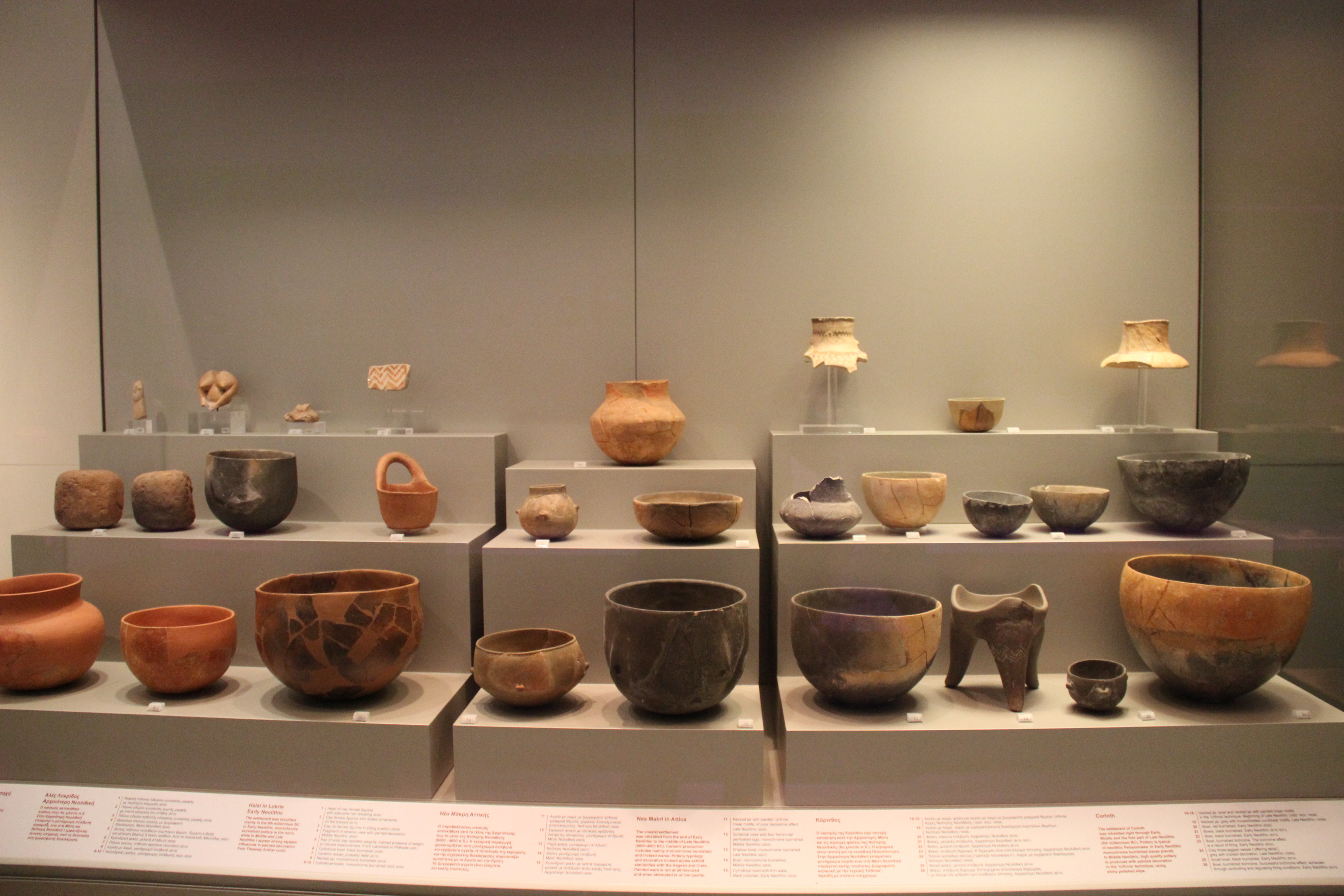 Greek Prehistory Gallery, National Museum of Archaeology, Athens, Greece. Complete indexed photo collection at .